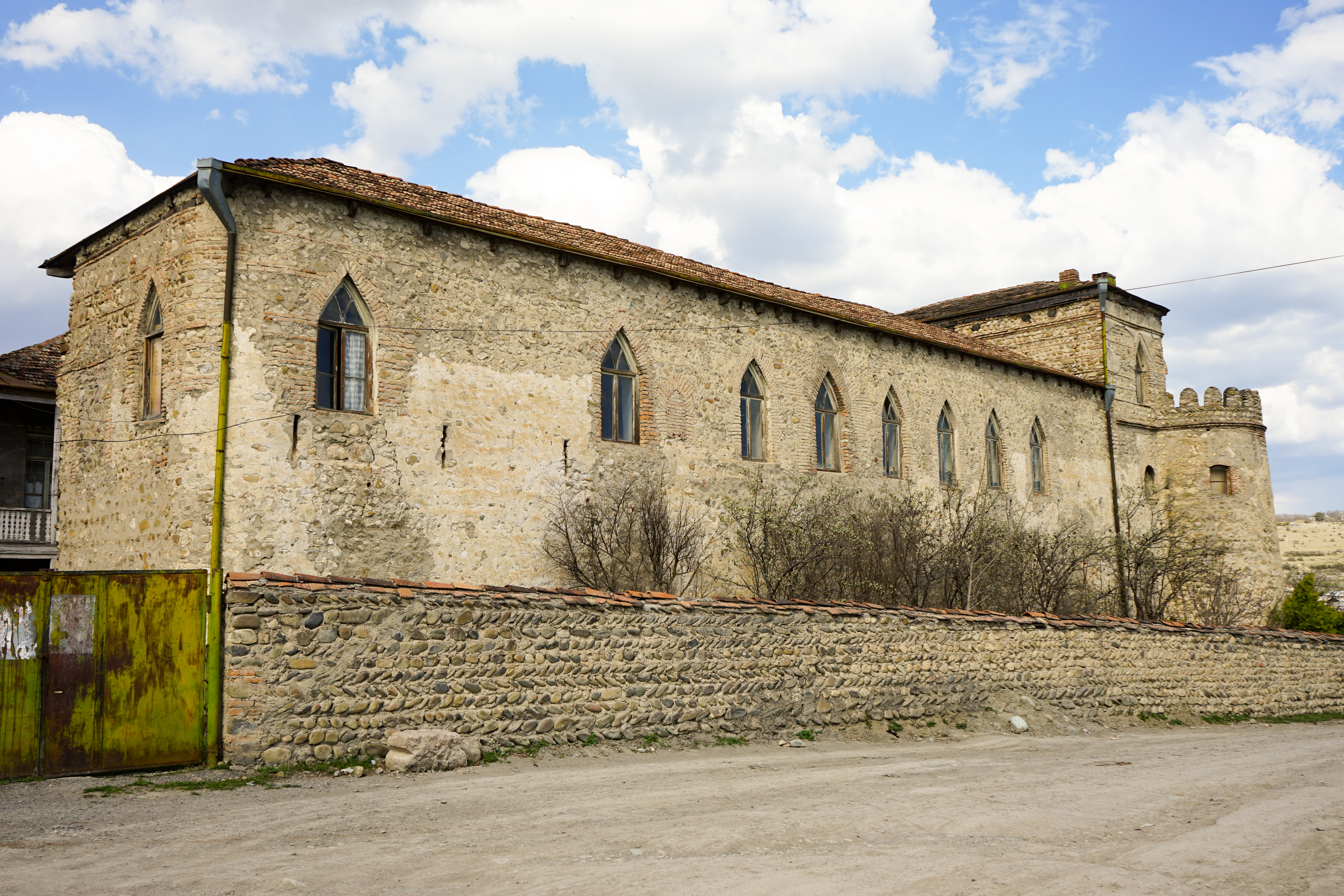 Fortress-Palace of the Chilashvilis (built in 1800), Dusheti, Georgia